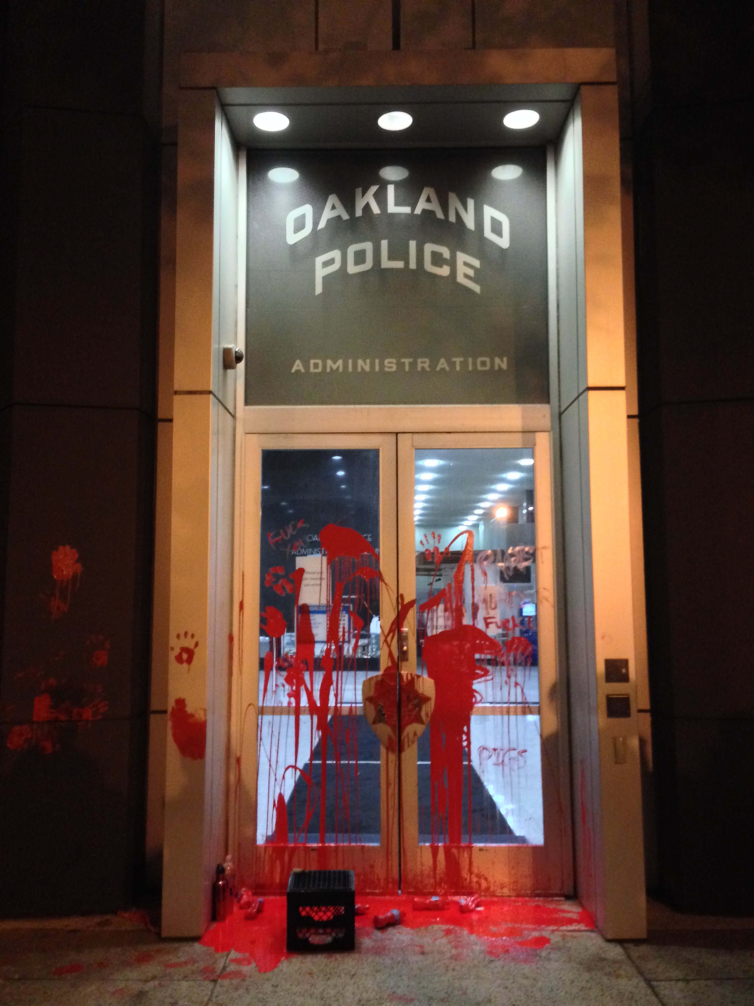 The door to the Oakland Police Department administration office after being vandalized with red paint as part of protests against the shooting deaths of Alton Sterling and Philando Castile